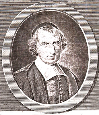 Jean Meslier's portrait